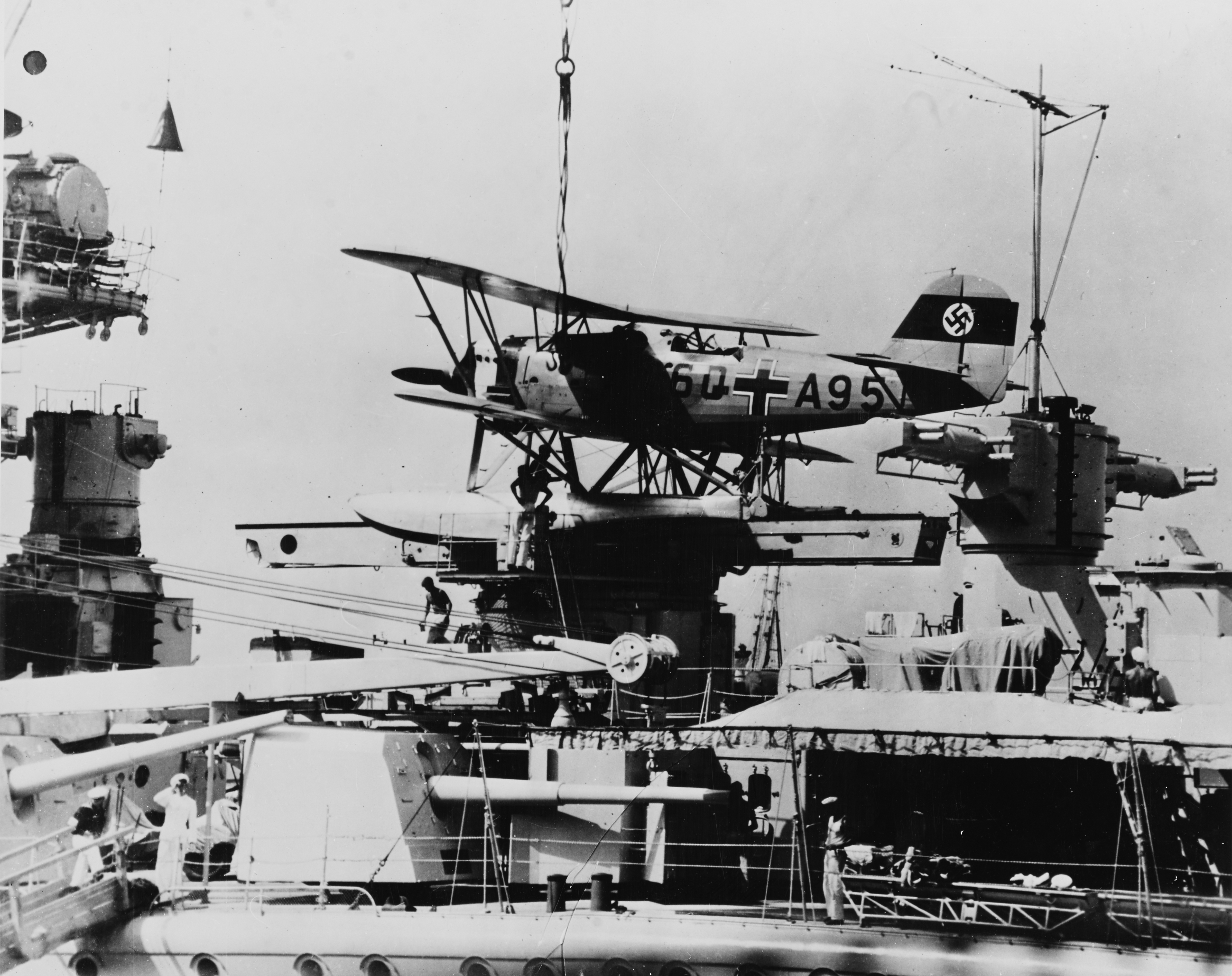 The German heavy cruiser ("pocket battleship") Admiral Scheer: detail view amidships of aircraft catapult, Heinkel He 60 aircraft, and one 15 cm gun, photographed 1935-38.